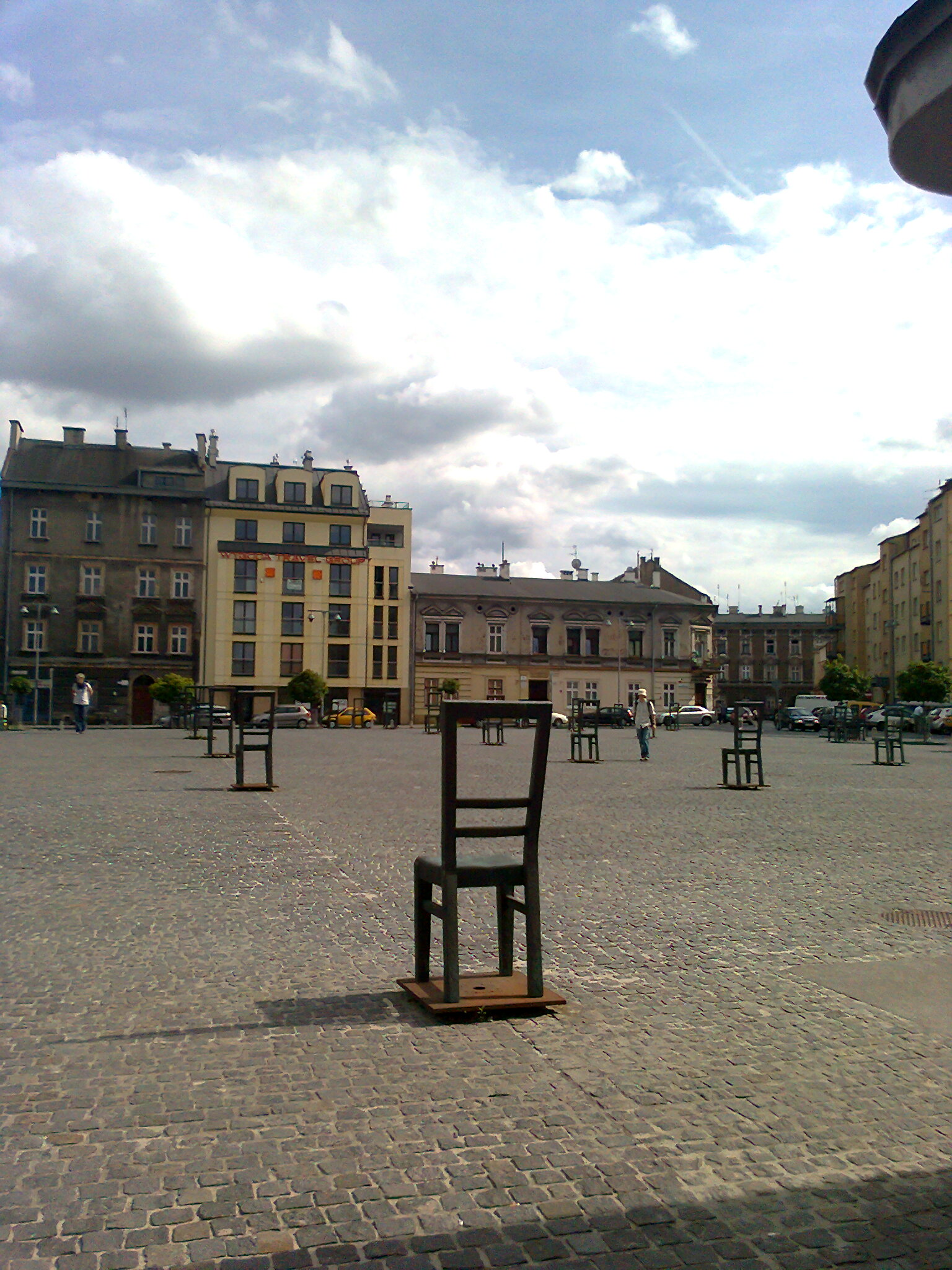 A series of bronze chairs situated in Kraków's Jewish quarter to commemorate the lives lost during the Holocaust.